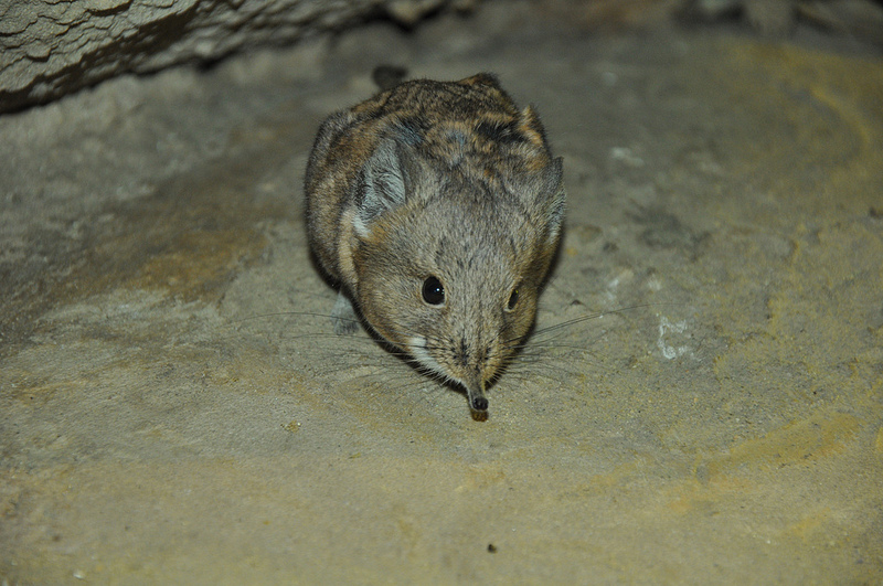 Short-eared elephant sengi at Prague Zoo.